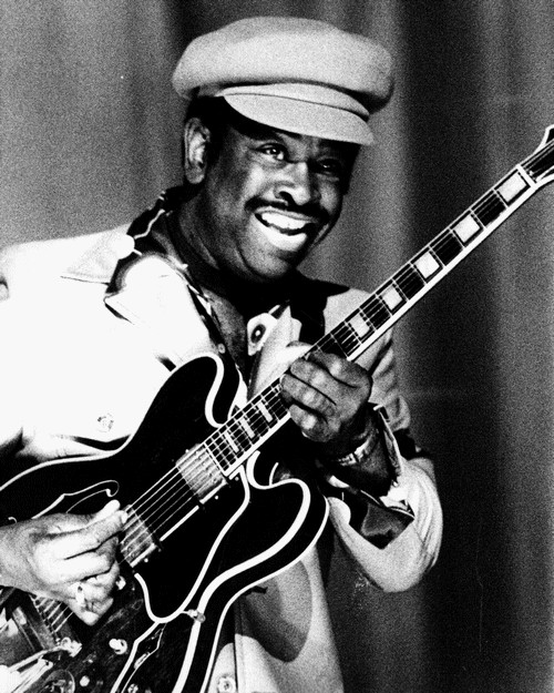 Blues guitarist Mighty Joe Young in Paris, France